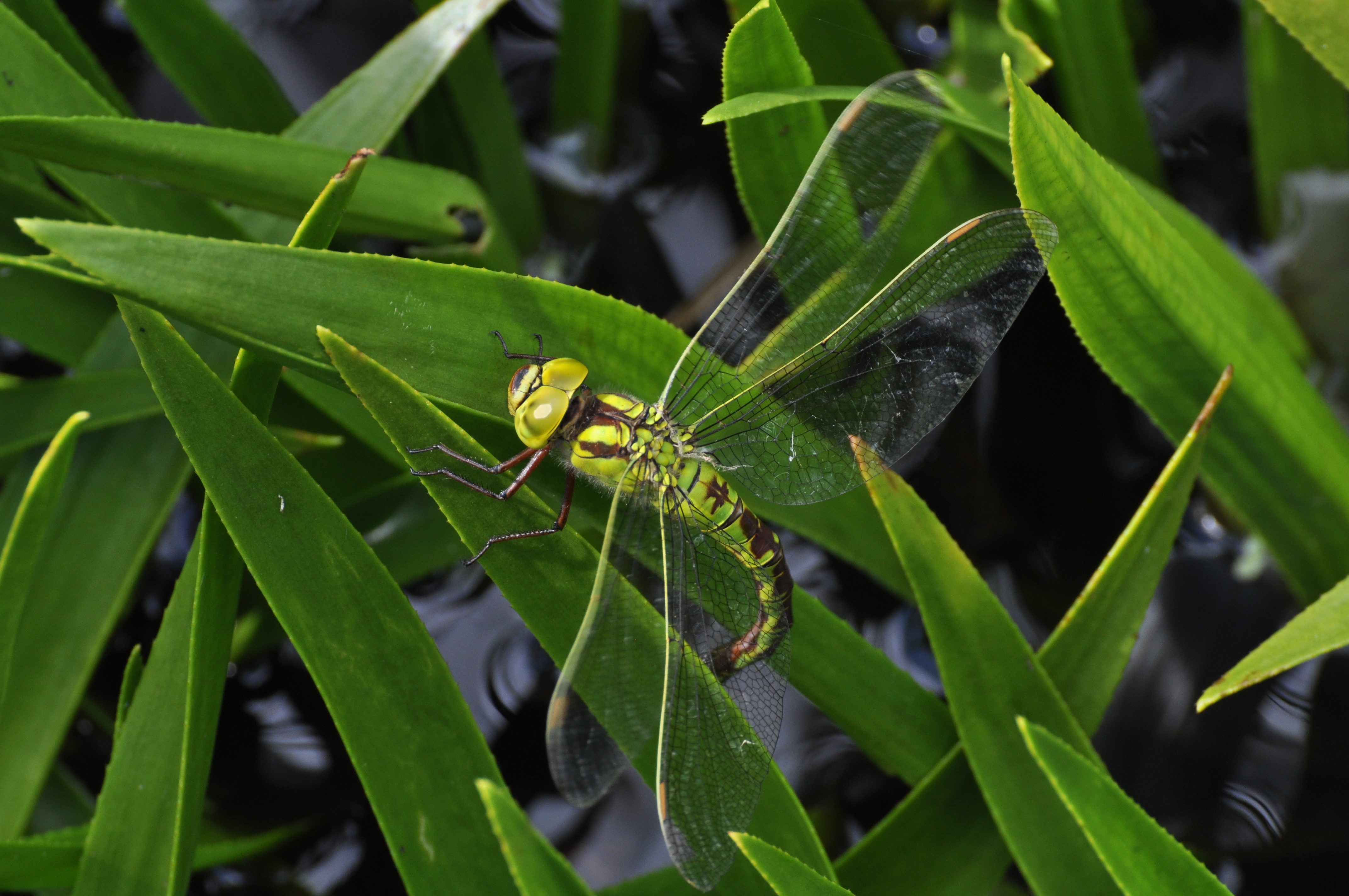 Aeshna viridis female oviposition on Stratiotes aloides in Kirchwerder